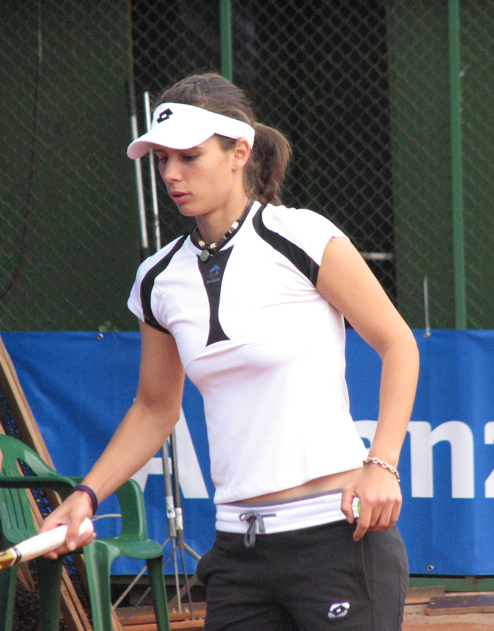 Tsvetana Pironkova (Allianz Cup Sofia 2008)